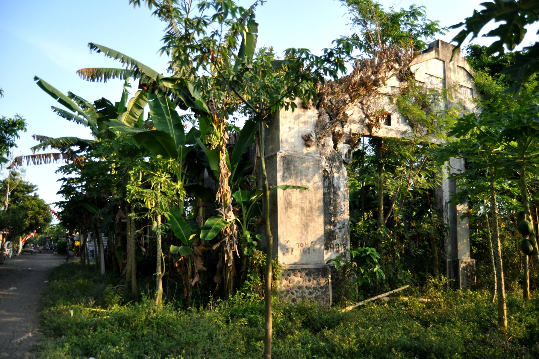 Ex Yosowilangun train station, closed since 1986, in Lumajang, East Java, Indonesia. Ruins of locomotive garage.